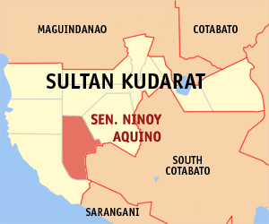 Map of the Sultan Kudarat showing the location of Senator Ninoy Aquino